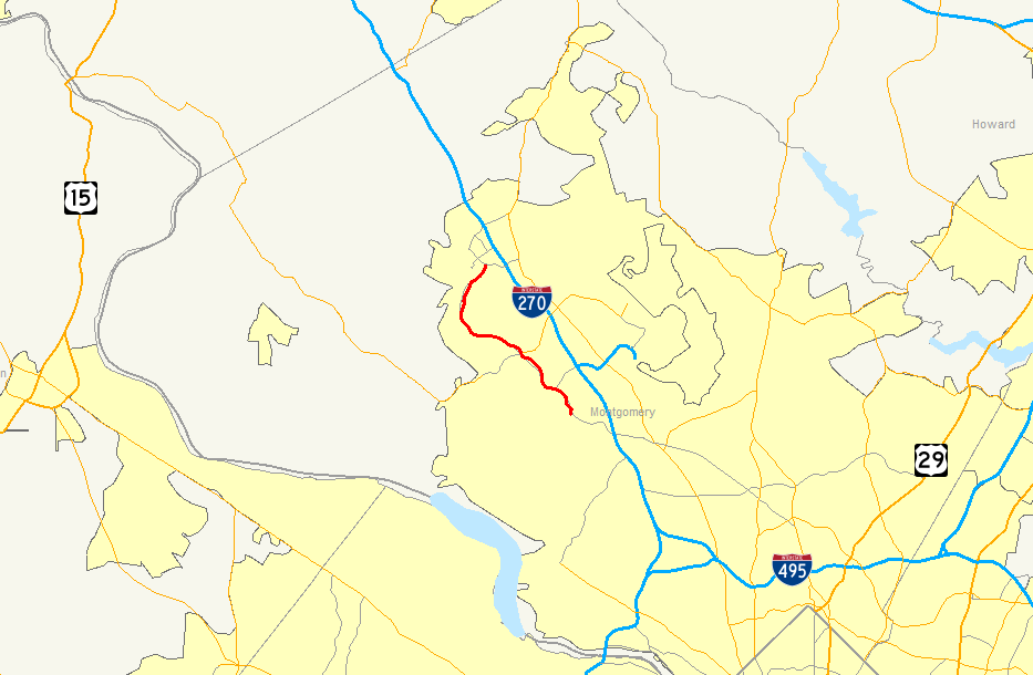 Map of Maryland Route 119